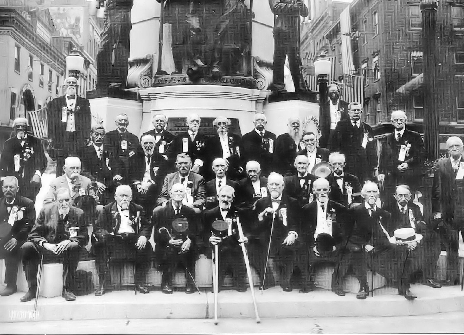 Members of the First Defenders, the Civil War Allen Infantry under Captain Thomas Yeager gather at the Soldiers and Sailor's Monument in Center Square on Decoration Day (Memorial Day), 1911.